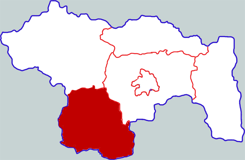 Location of Xiangcheng county in Xuchang city, China